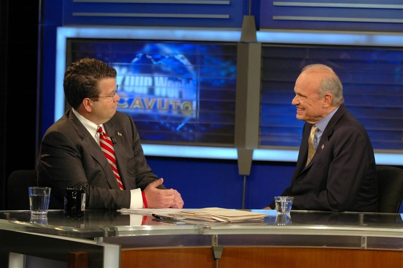 Fred interviewed by Neil Cavuto